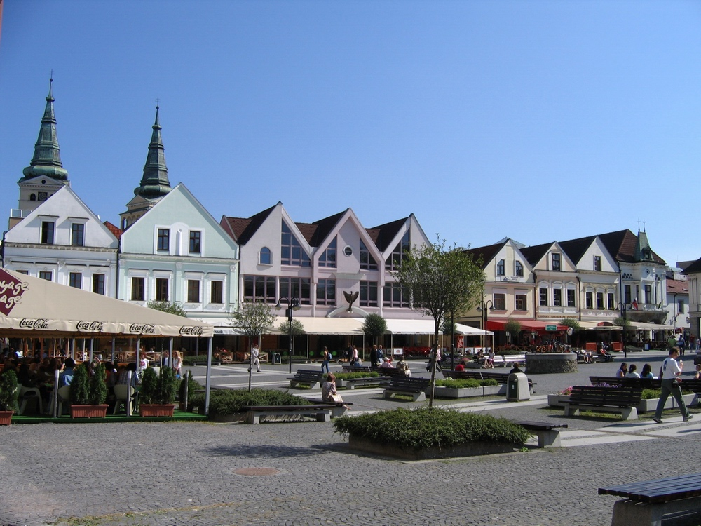 Marianske Square in Zilina city centre